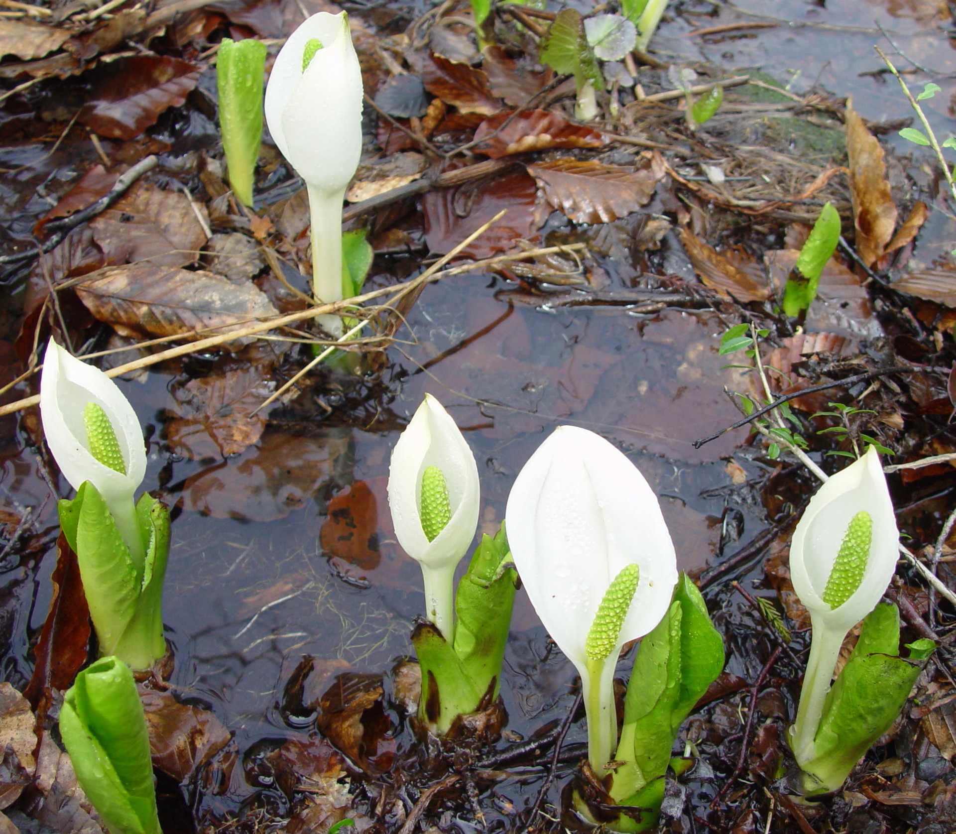 Lysichiton camtschatcensis in Mount Toritate